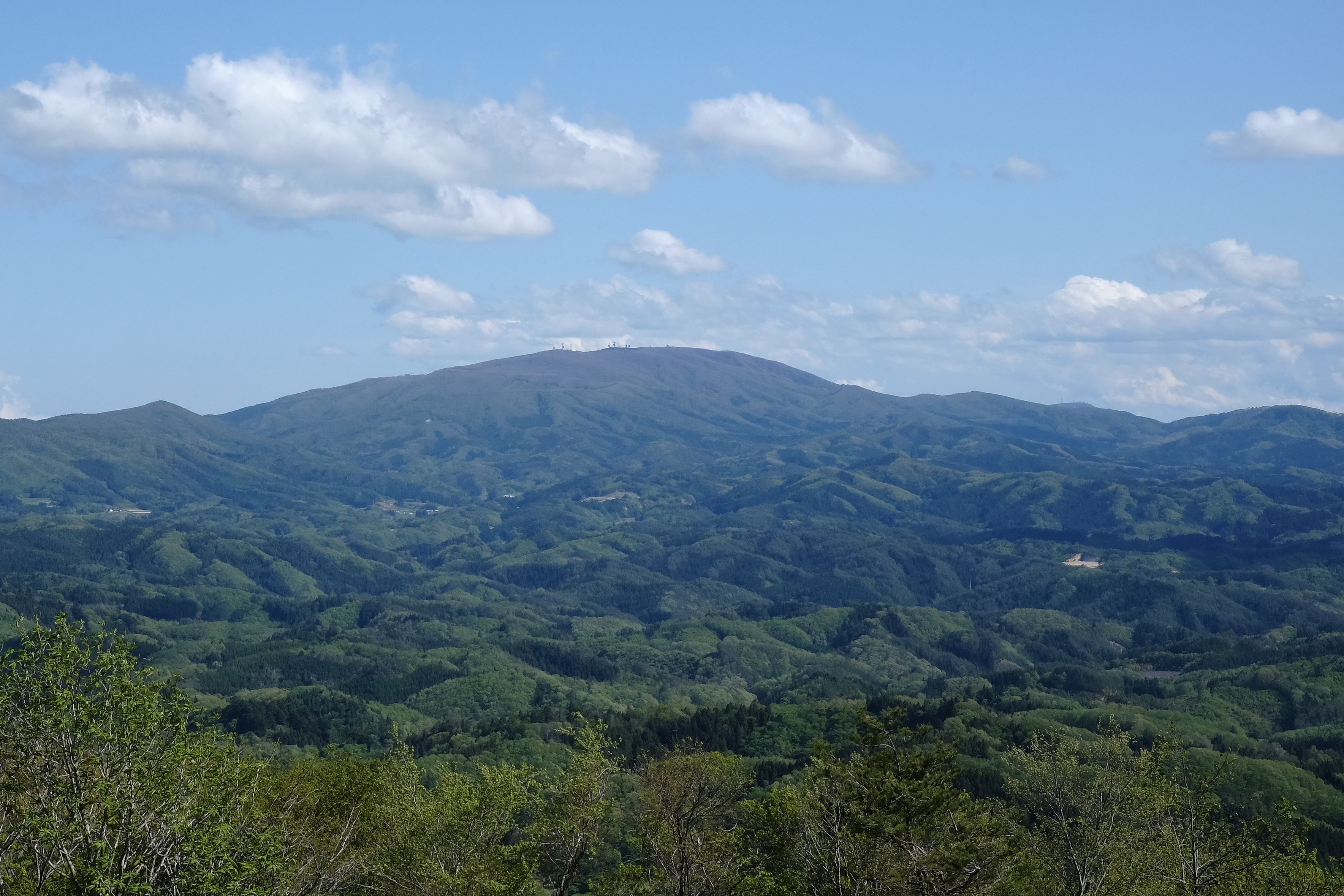 Mount Otakine (Otakineyama) seen from the NNW, in Fukushima Prefecture, Japan. Taken from Mount Denjo. This is a retouched picture, which means that it has been digitally altered from its original version. Modifications: cropped. Modifications made by Batholith.